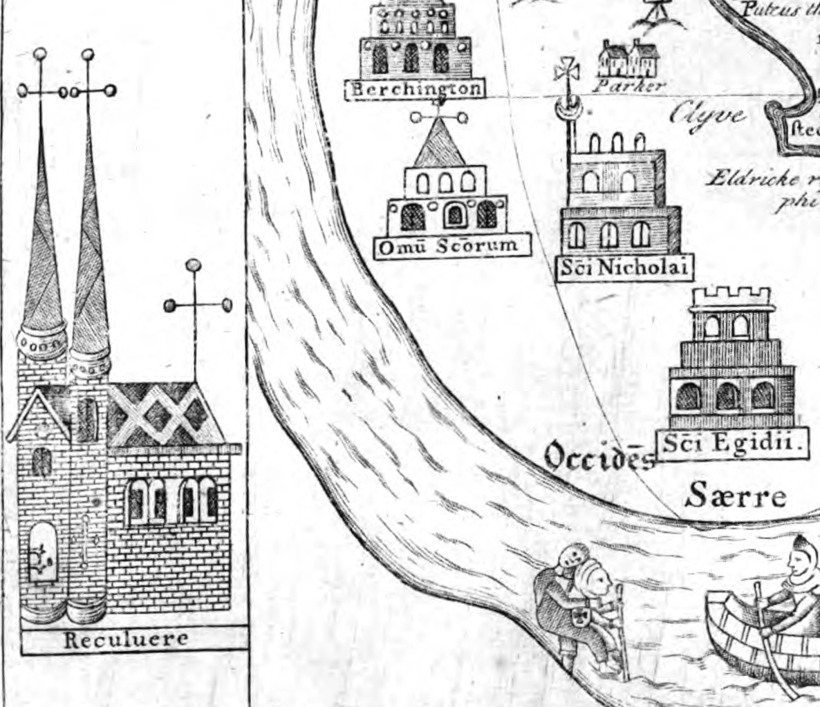 Detail derived from File:Mappa Thaneti Insule.jpg, showing the churches of All Saints, St Nicholas and St Giles on the Isle of Thanet in the early 15th century, with a stylised view of St Mary's church, Reculver, inset: north is at left; the stretch of water is the Wantsum Channel; and the person being carried to a boat is a monk, while his bearer is wearing a badge with a crucifix, marking him as an ecclesiastical servant (see Lewis, John, The History and Antiquities Ecclesiastical and Civil of the Isle of Tenet in Kent, 1773, p. 27)